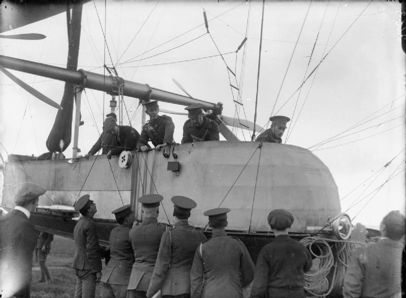 The car of the British army airship Delta. Later known as the Royal Navy airship HMA 19. British Army airships were operated by the Royal Engineers, until all British military airships were taken over by the Royal Navy in 1914.